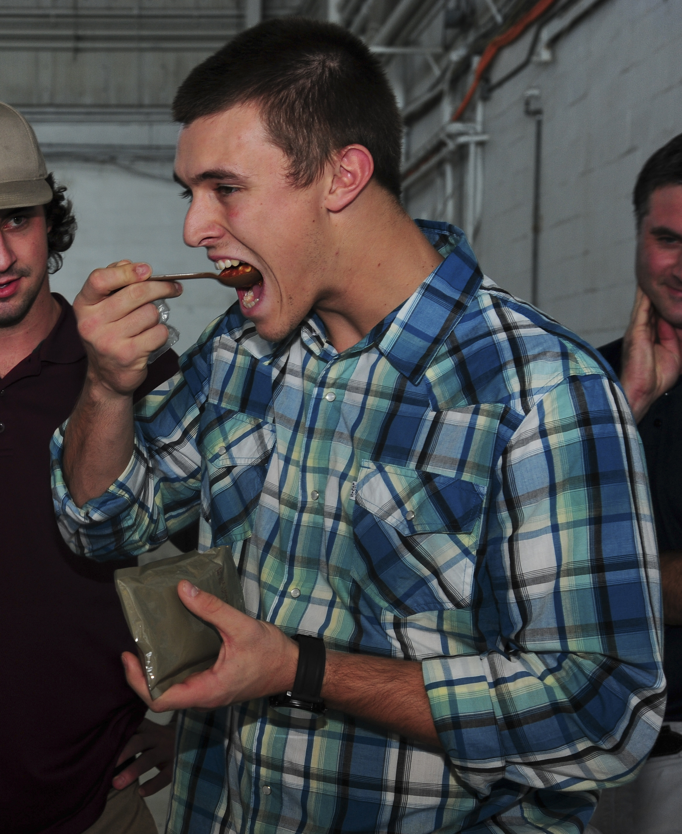 Richie Shaffer, Tampa Bay Rays minor league third baseman, eats a Meal, Ready to Eat during a tour at MacDill Air Force Base, Fla., Jan 16, 2013. Players from the Rays spent the afternoon with Airmen at the base to get an inside look of MacDill’s mission. (U.S. Air Force photo by Staff Sgt. Linzi Joseph/Released)